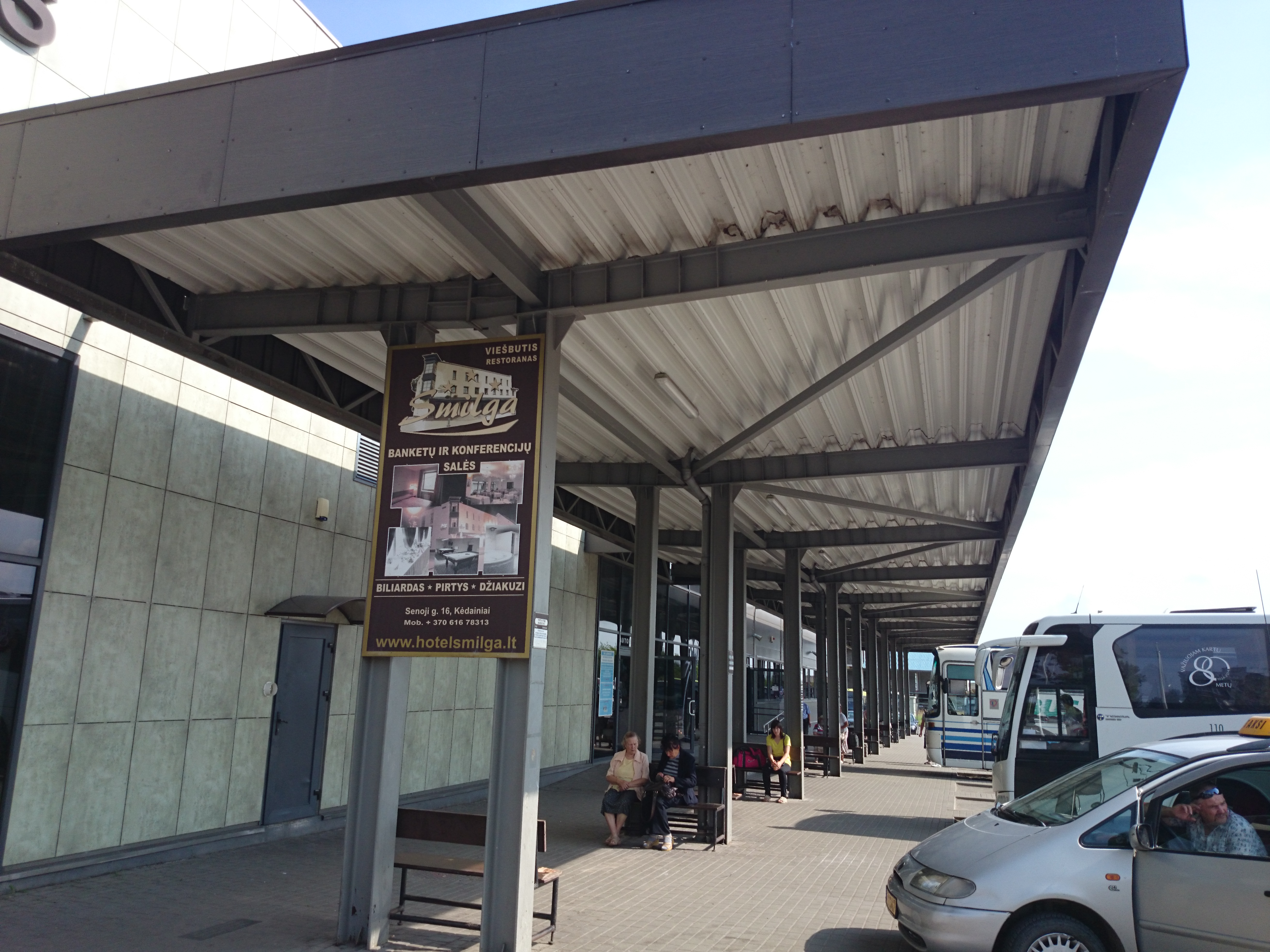 Kėdainiai Bus Station 1